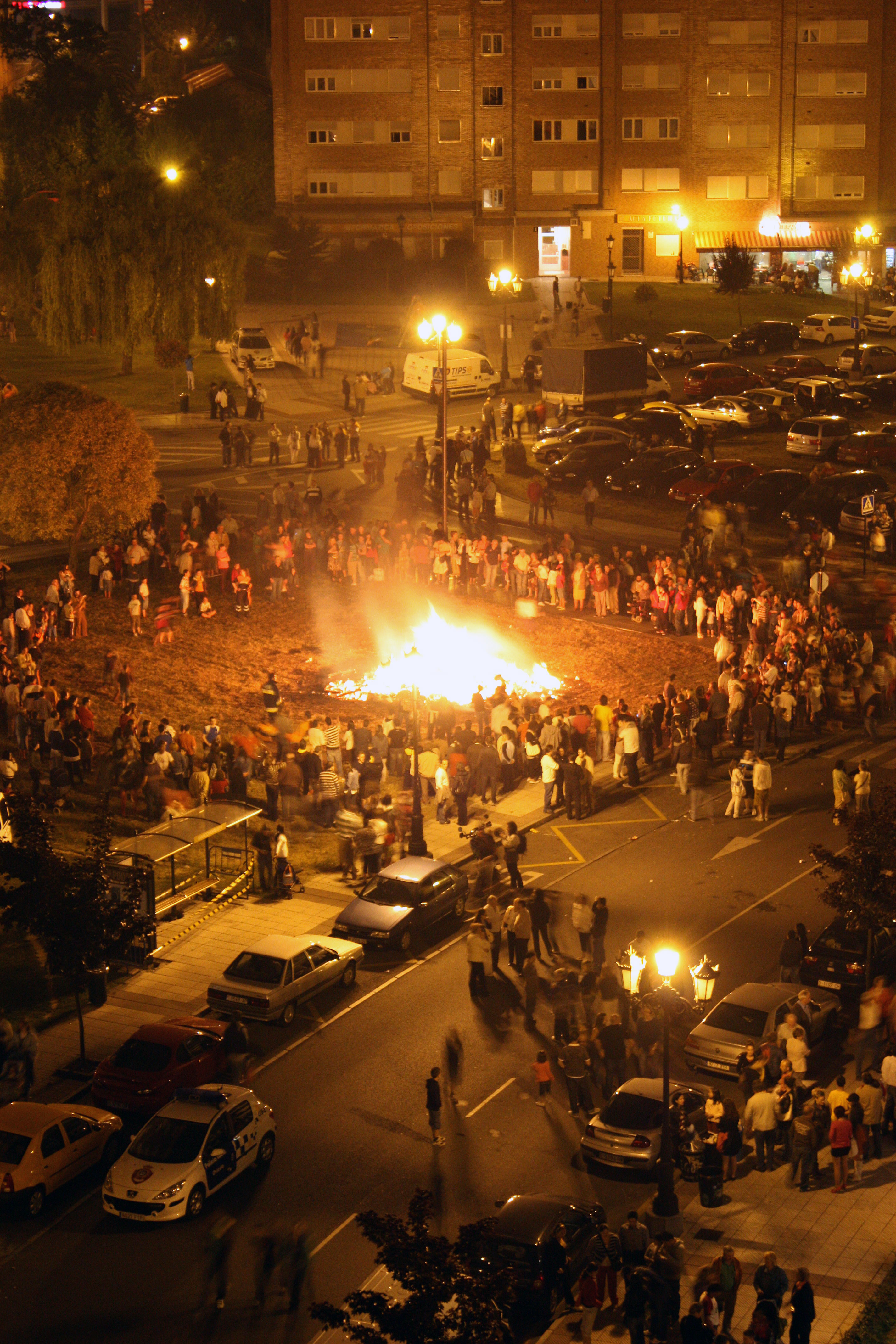 Midsummer bonfire (Saint John night) 2009 in La Corredoria, Oviedo, Asturias, Spain